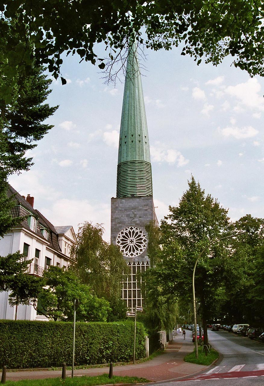 Curch of St. Nikolai, Hamburg, Germany This is a photograph of an architectural monument.